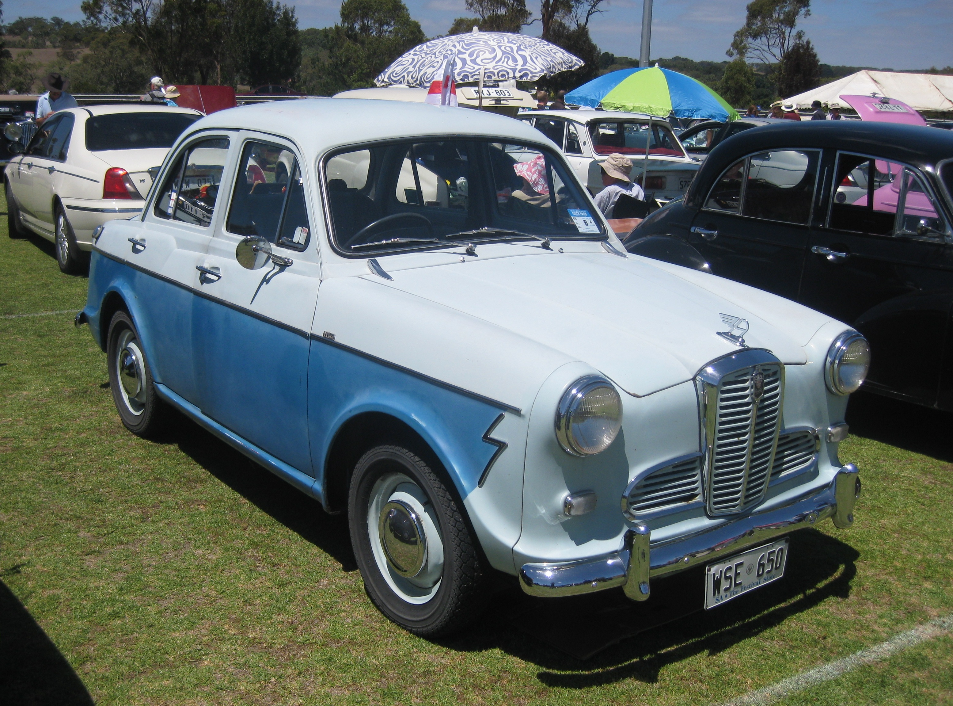 Austin Lancer Series 1